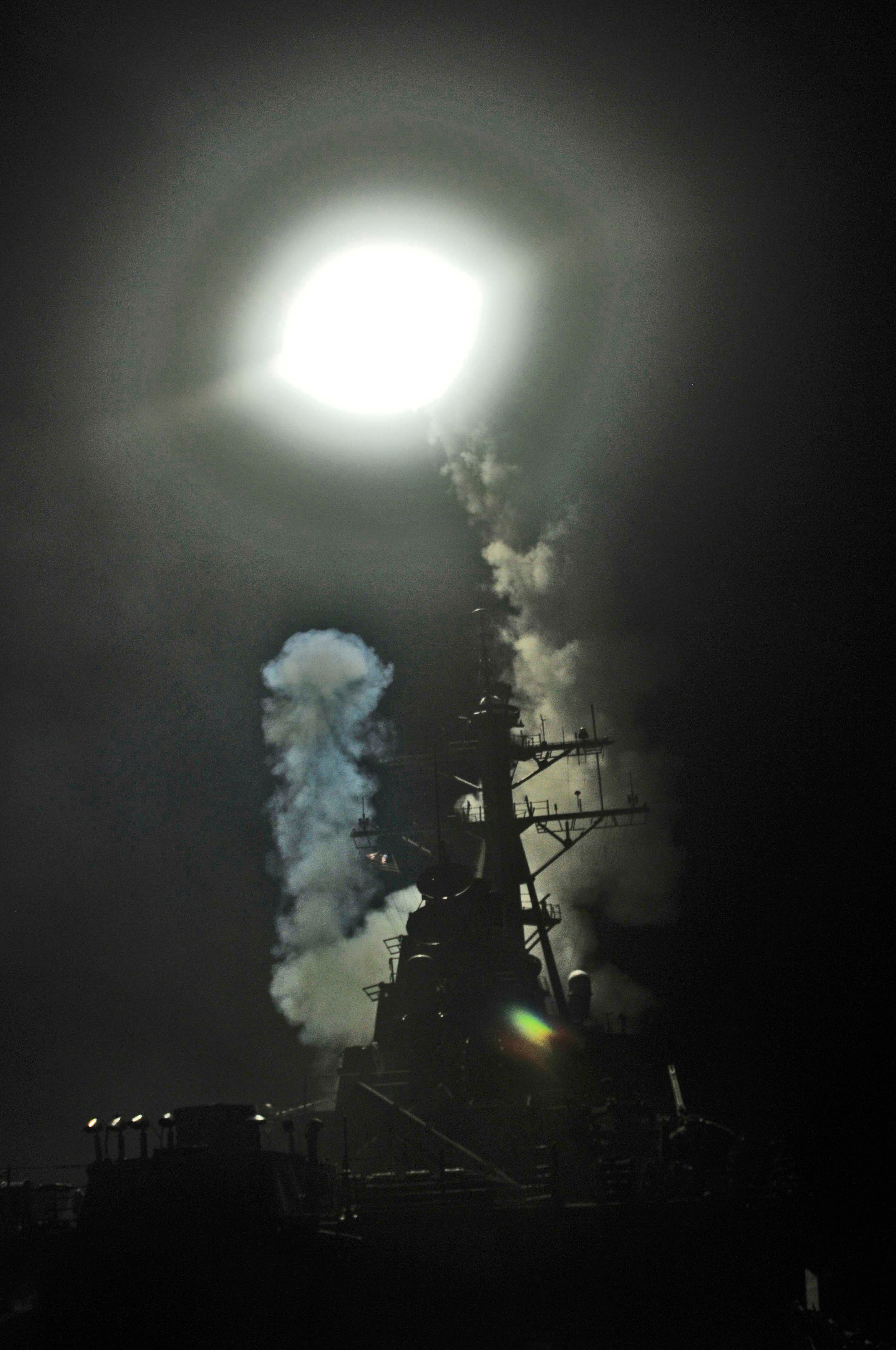 The Arleigh Burke-class guided-missile destroyer USS Barry (DDG 52) launches a Tomahawk missile in support of Operation Odyssey Dawn on March 19, 2011.